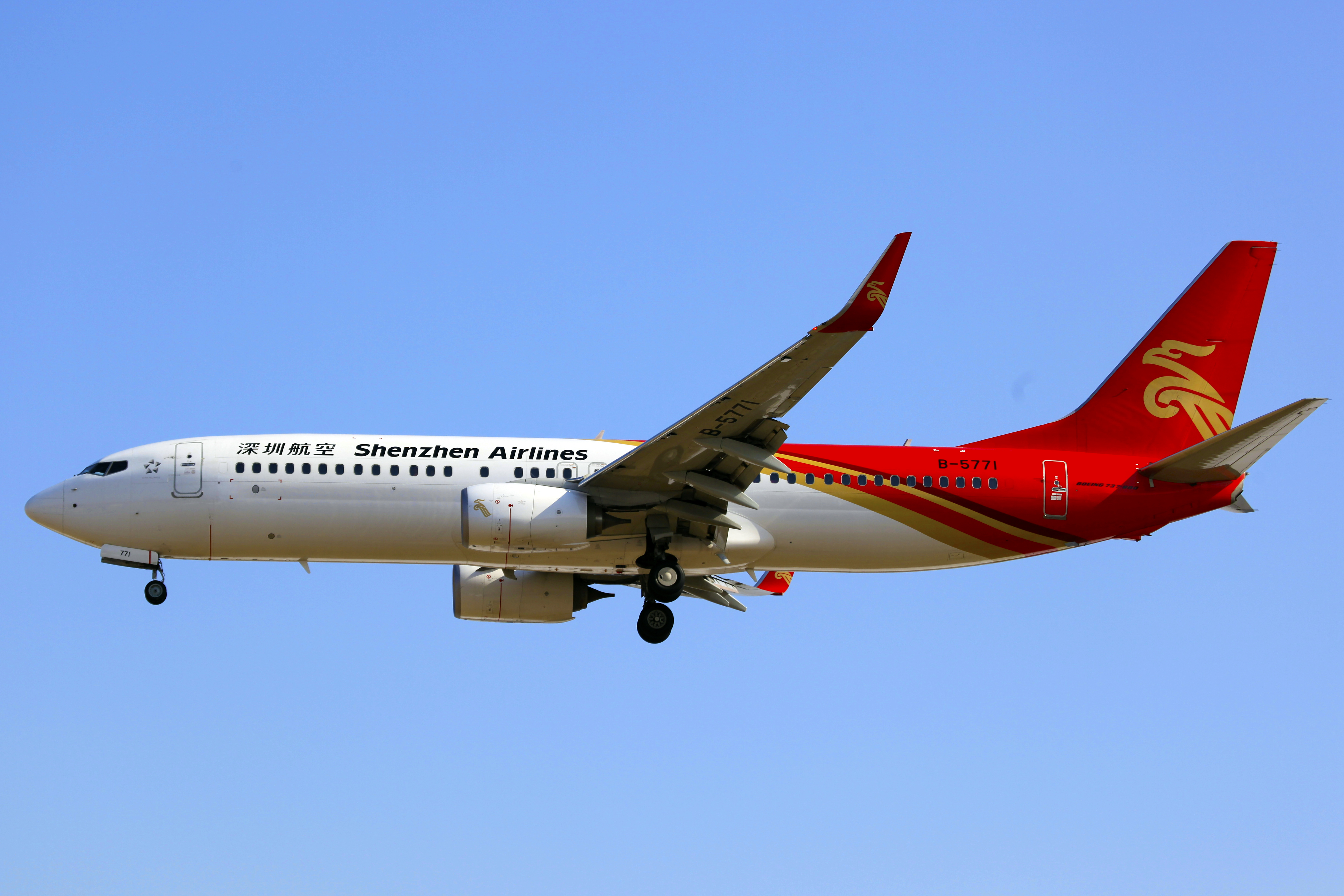 B-5771 | Shenzhen Airlines | Boeing 737-87L(WL) | Beijing Capital International Airport [PEK]